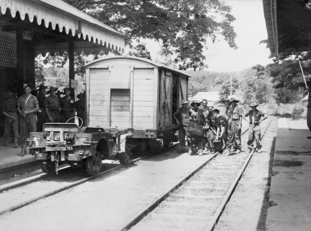 NORTH BORNEO. 1945-08-01. LIKE THE TINY BUT POWERFUL ANT, THE "JEEPOMOTIVE" CARRIES, PUSHES OR PULLS MANY TIMES ITS OWN WEIGHT. THE MAKERS SET THE HAULAGE MAXIMUM AT 1,000 POUNDS, BUT "JEEPOMOTIVES" HAVE BEEN KNOWN TO DRAW A THREE-TON TRUCK LADEN WITH FOUR TONS OF SAND ON THIS SYSTEM. SQUADRON LEADER JACK LIBERTY OF PERTH, WA, ADAPTED THE JEEP BY DESIGNING SPECIAL ATTACHMENT TO THE WHEELS OF JAPANESE MOTOR TRANSPORTS AND BY MODIFYING THE STANDARD JEEP AXLE TO TAKE THESE WHEELS AND TRACK THE ONE-METRE GAUGE. OFFICIALLY THE AVERAGE SPEED OF THE JEEP-TRAIN HAS BEEN SET AT FIFTEEN MILES PER HOUR BUT ARMY DRIVERS ALWAYS SEEM TO RUN TO TIME IN SPITE OF ANY DELAYS ON THE ROUTE.